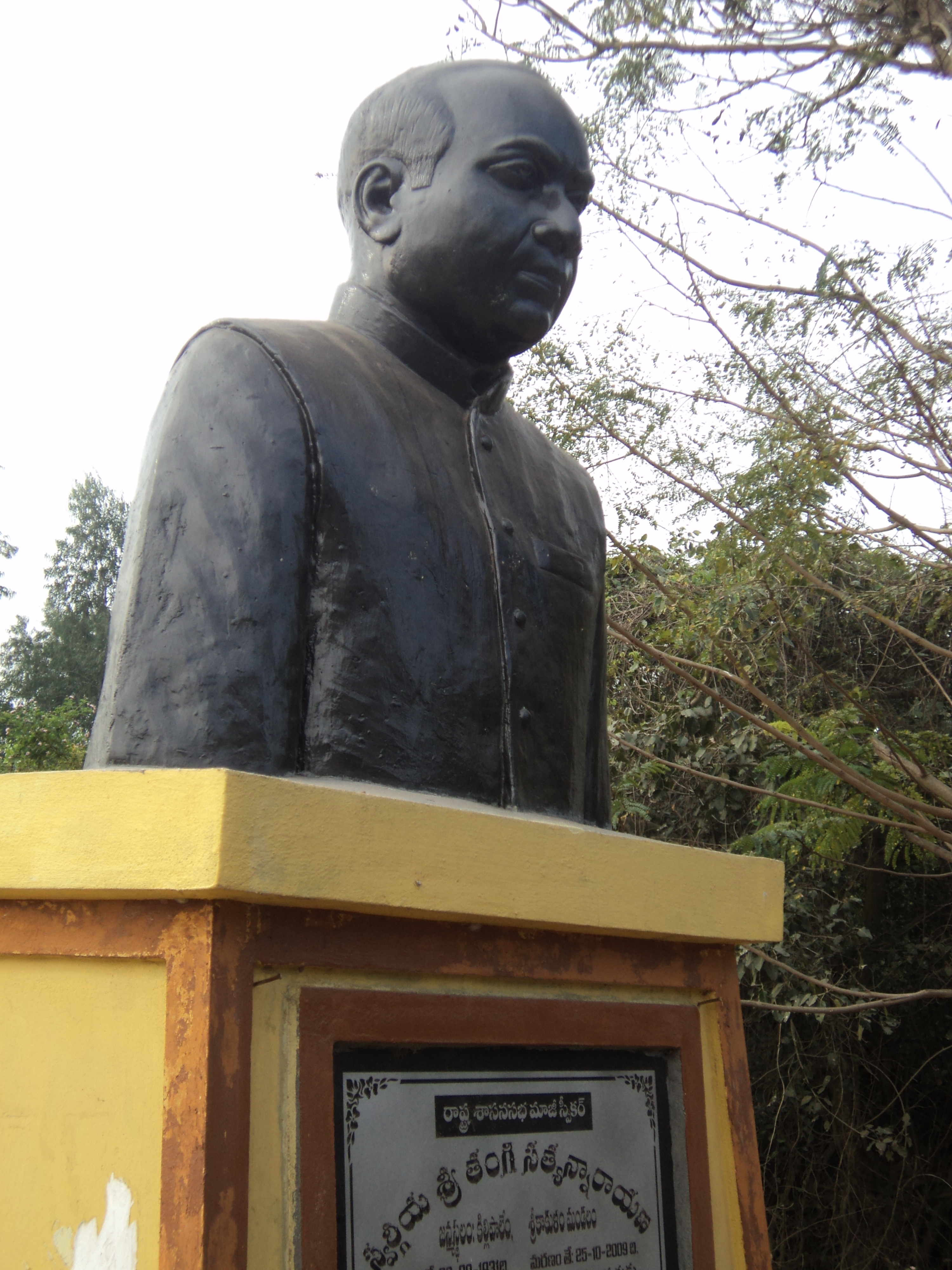 This is photograph of Statue of Thangi Satyanarayana in Srikakulam.